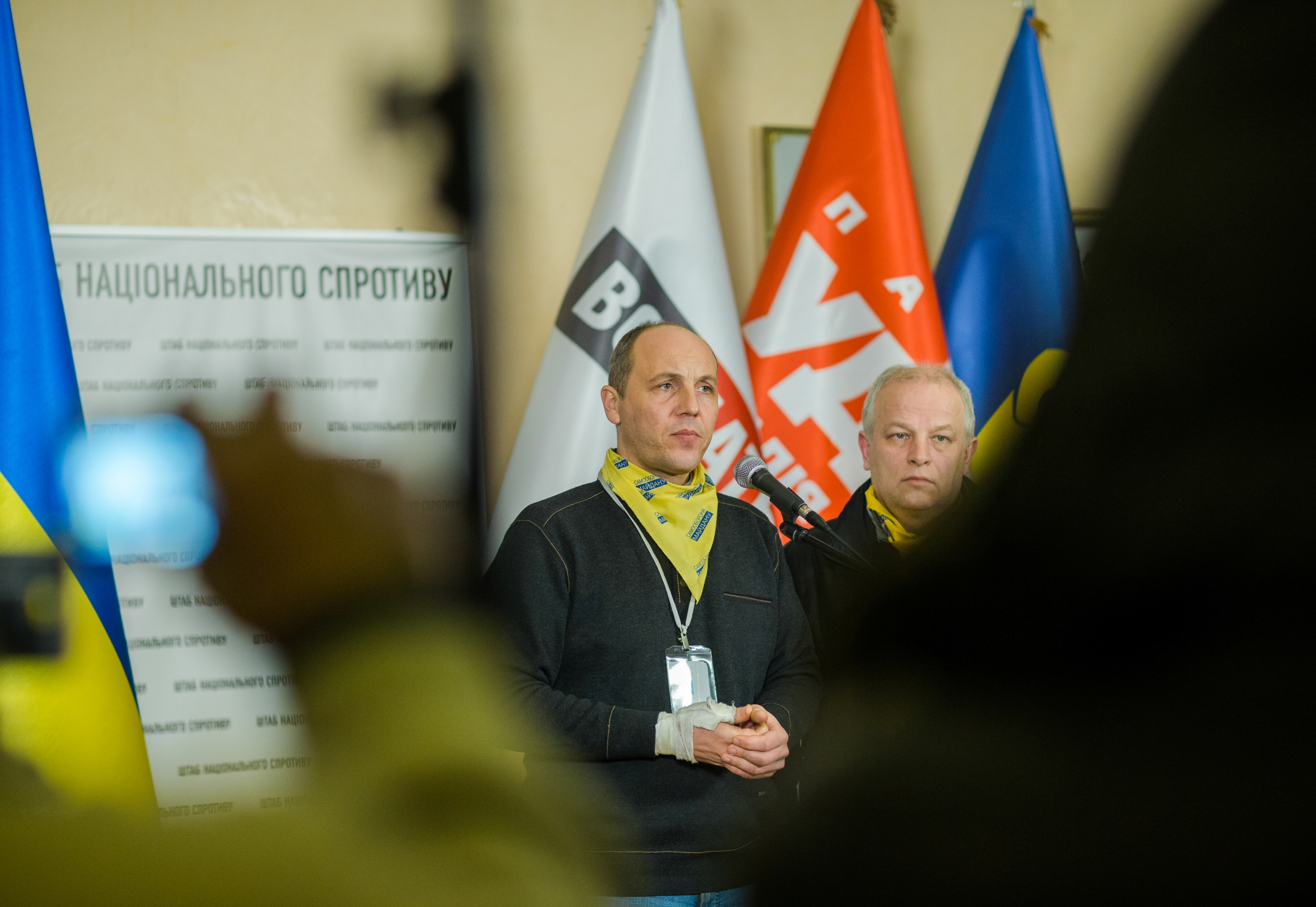 Kiev. Ukraine. 27 January 2014. Andriy Parubiy.